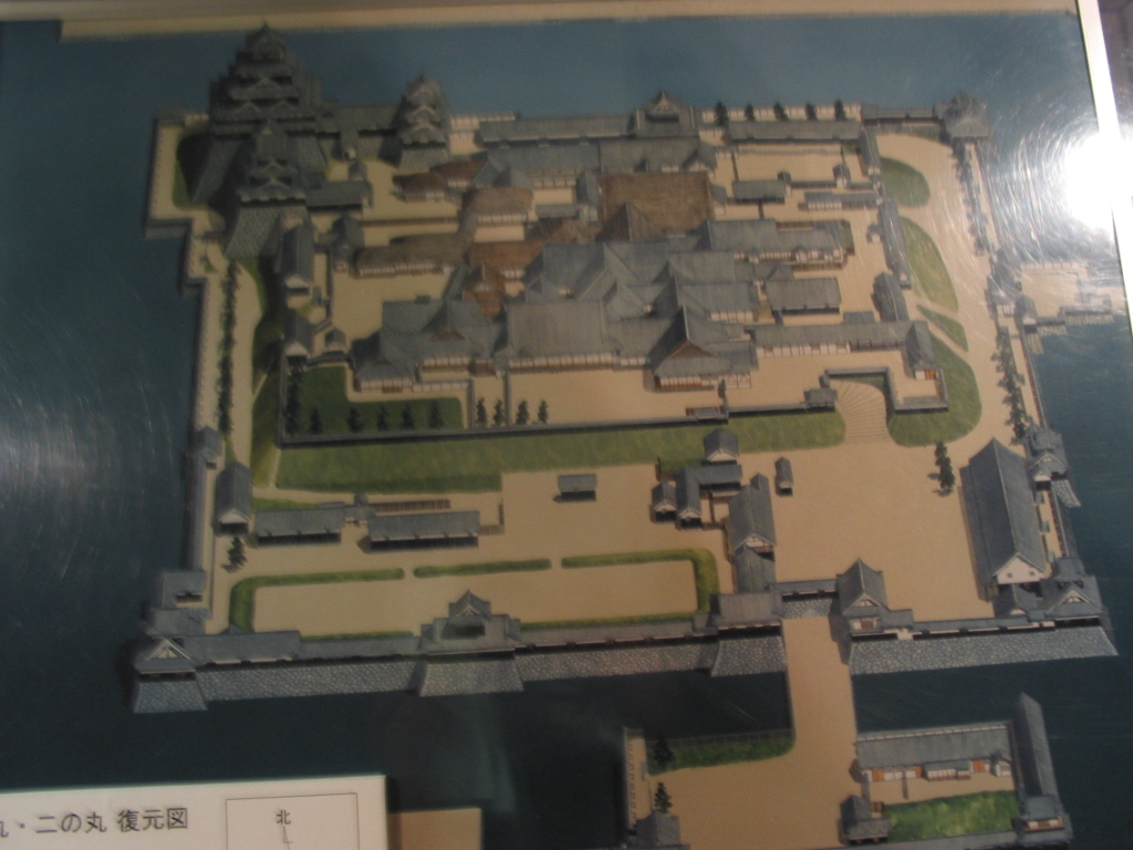 Drawing of Hiroshima Castle from Hiroshima Castle museum. Taken by Ningyou.